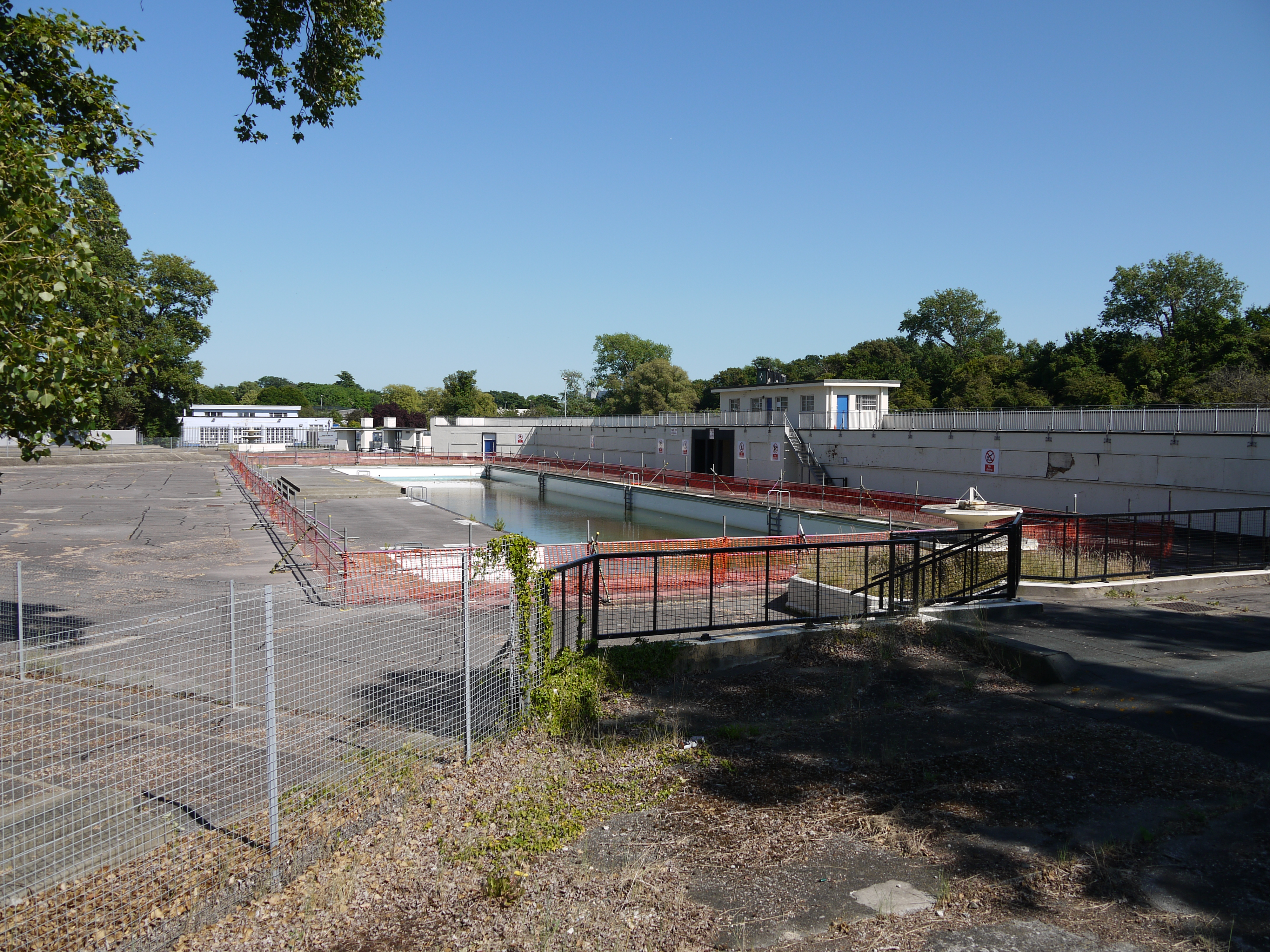 Photo of hilsea lido not in use.